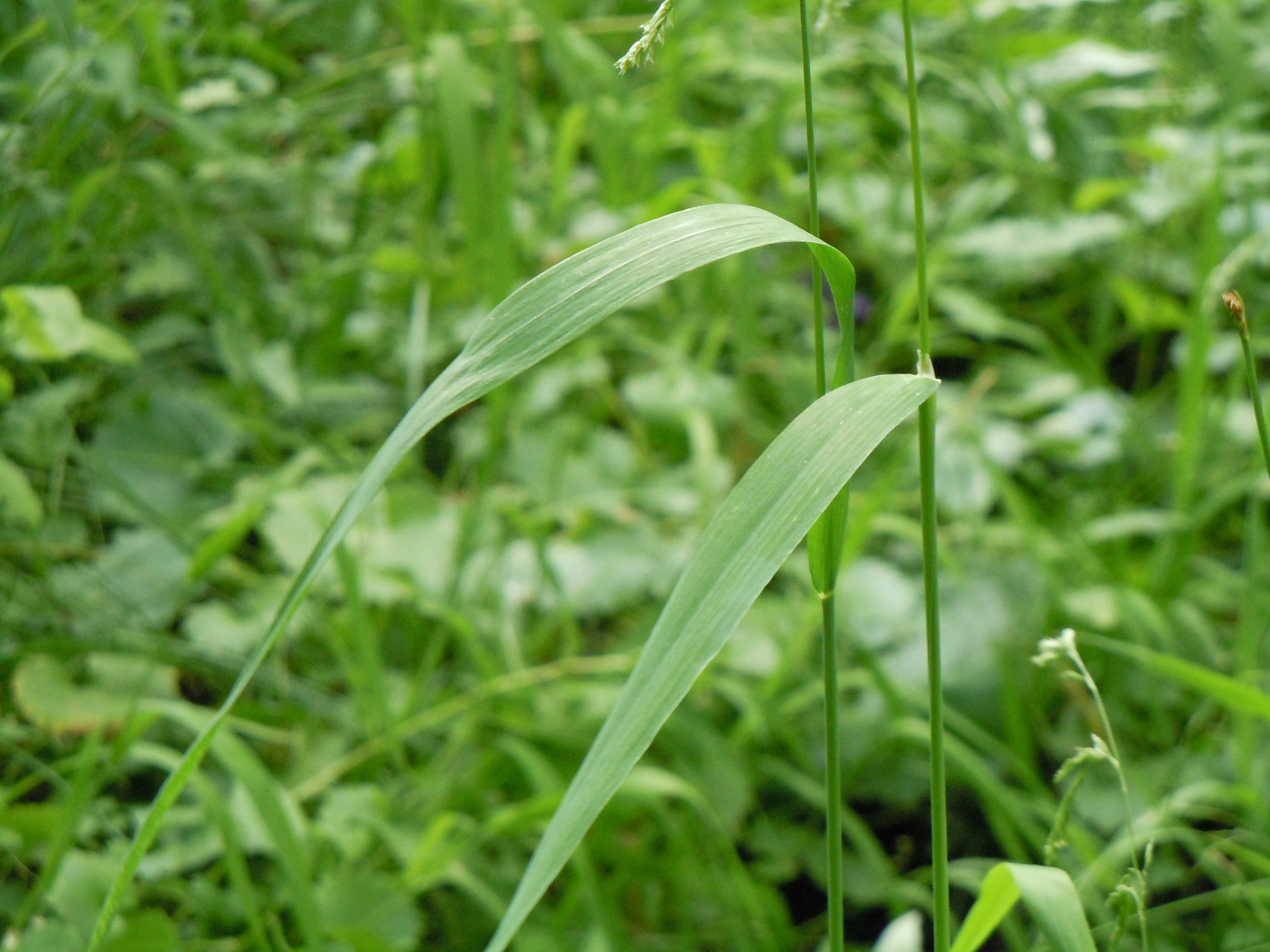 Similar to an Agrostis (bentgrass) but with disarticulation below the glumes, a drooping inflorescence, and broad leaf blades (1 cm or broader).